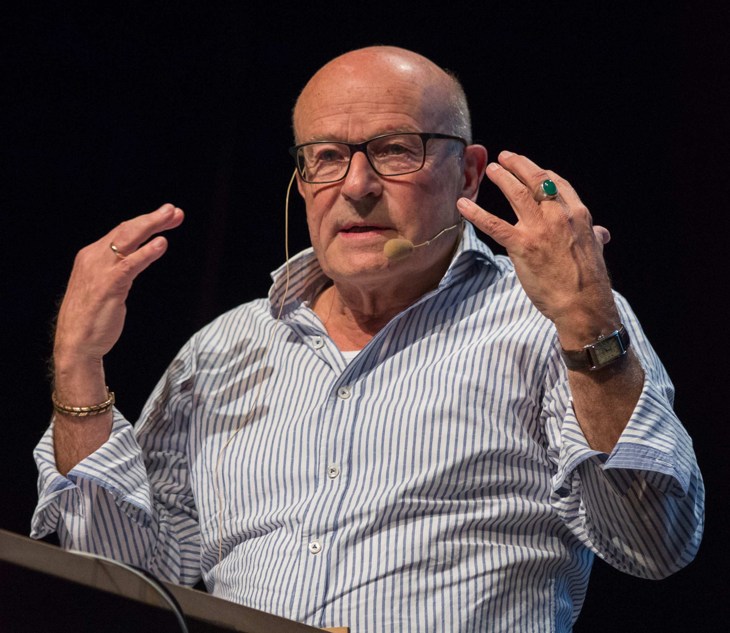 Volker Schlöndorff at the See-Conference 2015 in the Schlachthof Wiesbaden